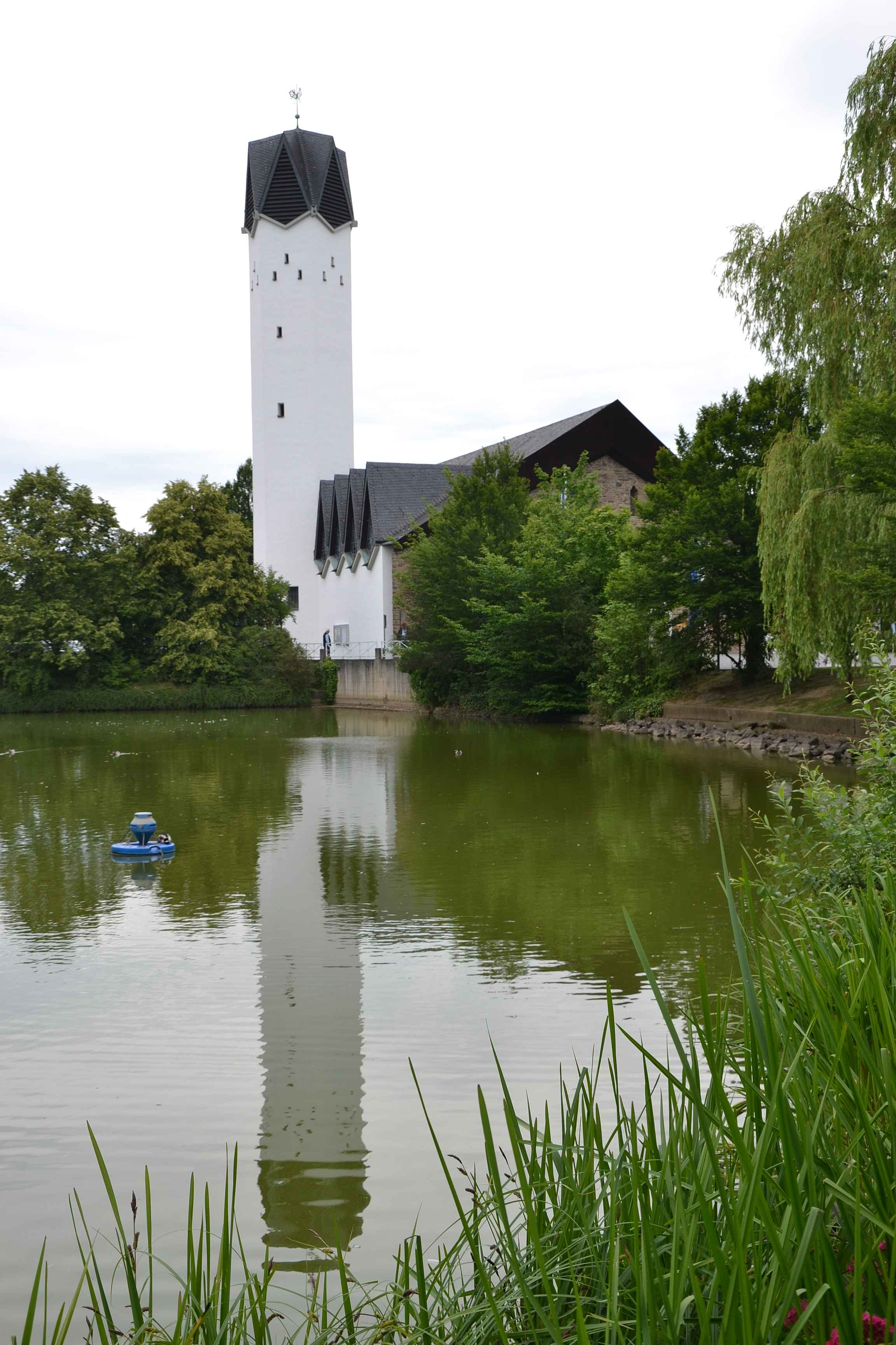 Parish and pilgrimage church St Catharina (of Alexandria) in Buschhoven near Bonn, Germany; pilgrimage to Madonna Rosa Mystica